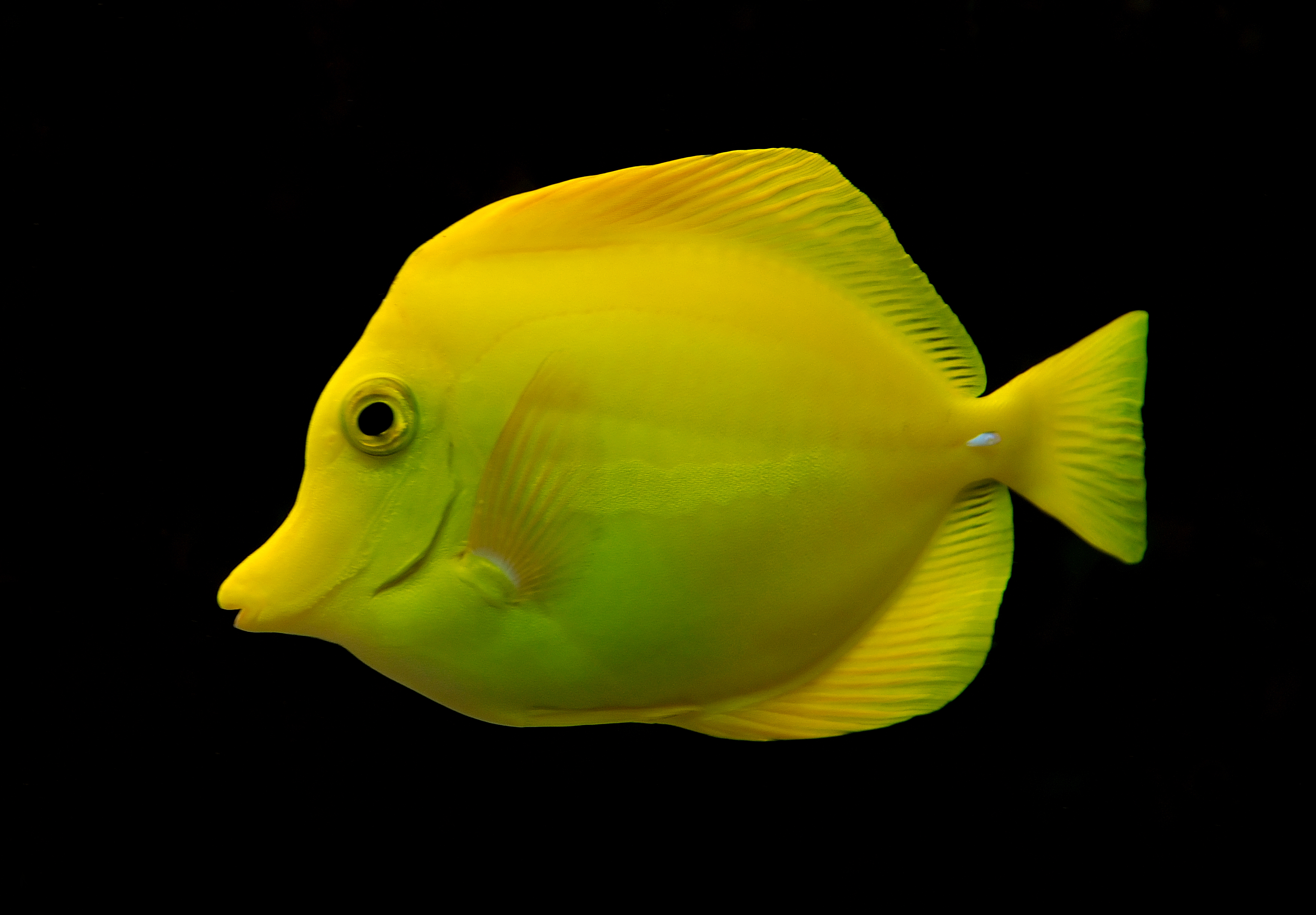 Yellow tang in aquarium-Muséum Liège (Belgium)